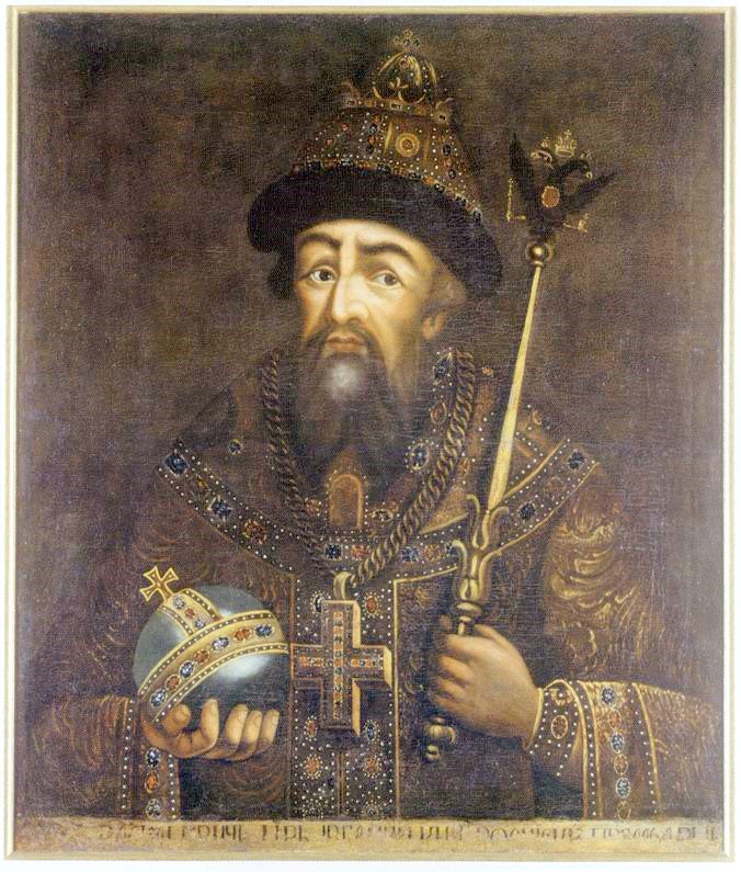 Portrait of Ivan IV the Terrible from the collection of State History Museum.